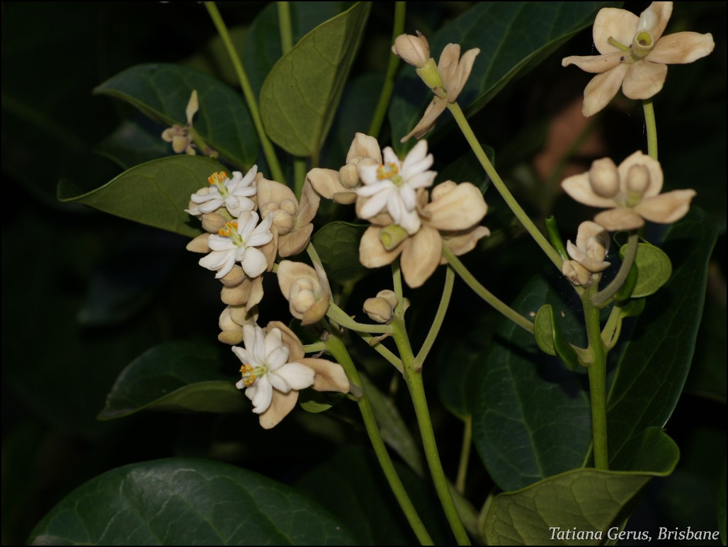 Tree native to Tonga, Fiji ( South Pacific Ocean) Family: Hernandiaceae, sometimes placed in Lauraceae Mt. Coot-tha Botanic Garden, BRISBANE Info about Hernandia moerenhoutiana in Cook Islands Biodiversity Database Another view